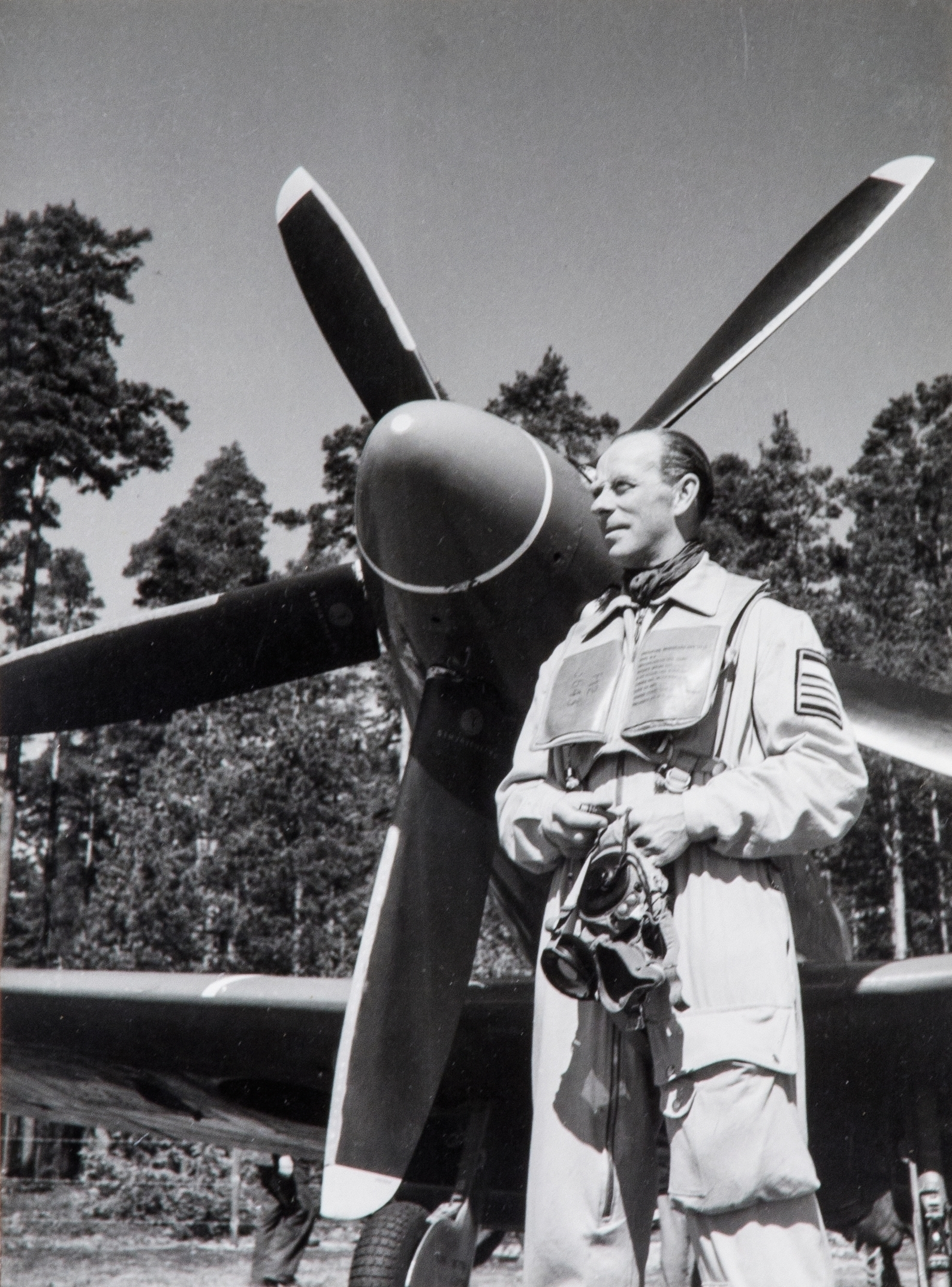 Portrait photograph of Greger Falk, commander of Södermanland Air Force Wing in flight suit next to a S 31 (Supermarine Spitfire) aircraft.